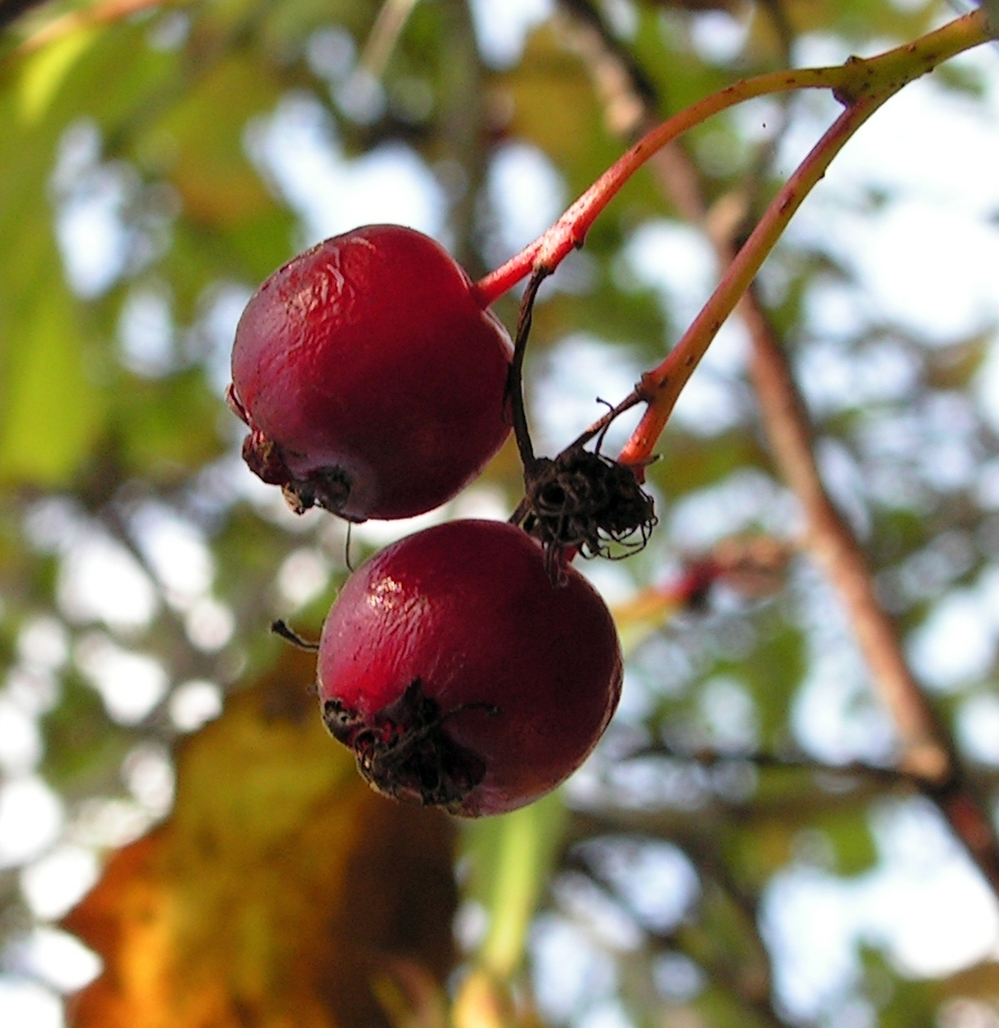 The fruits of Crataegus sanguinea. Moscow region, Russia.